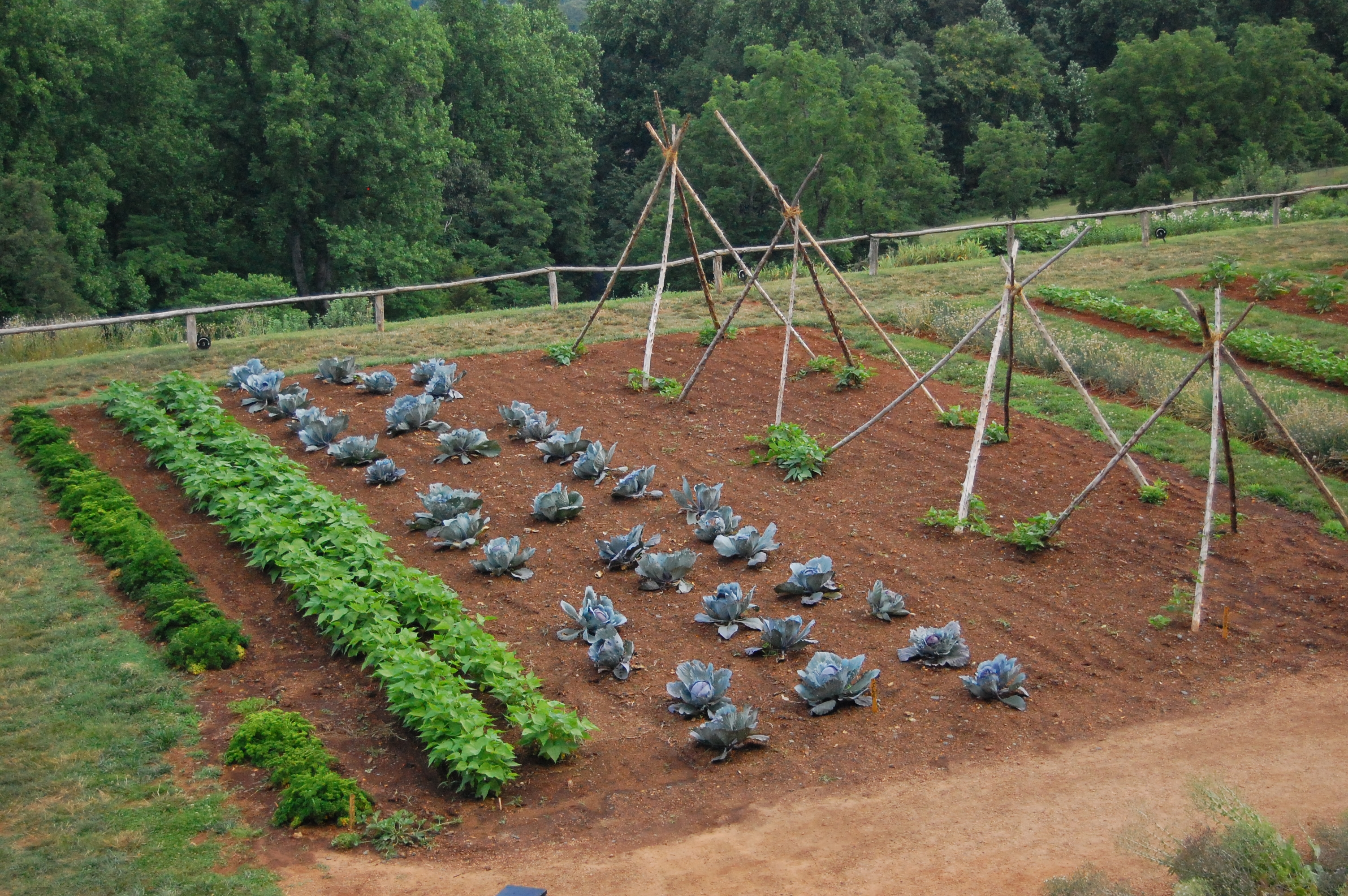 vegetable garden, detail